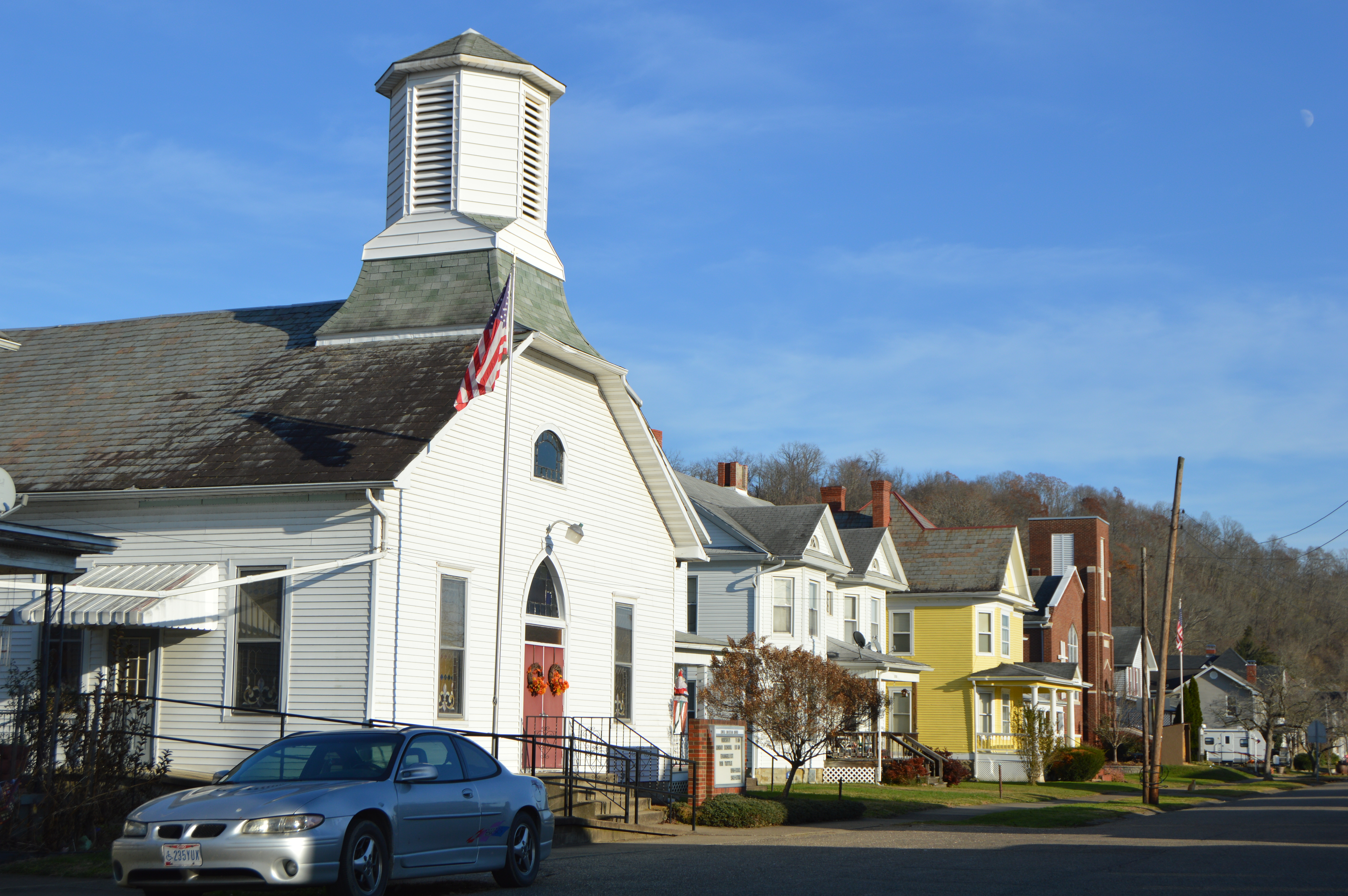 Buildings on the northern side of the 300 block of Fourth Street in Lowell, Ohio, United States.